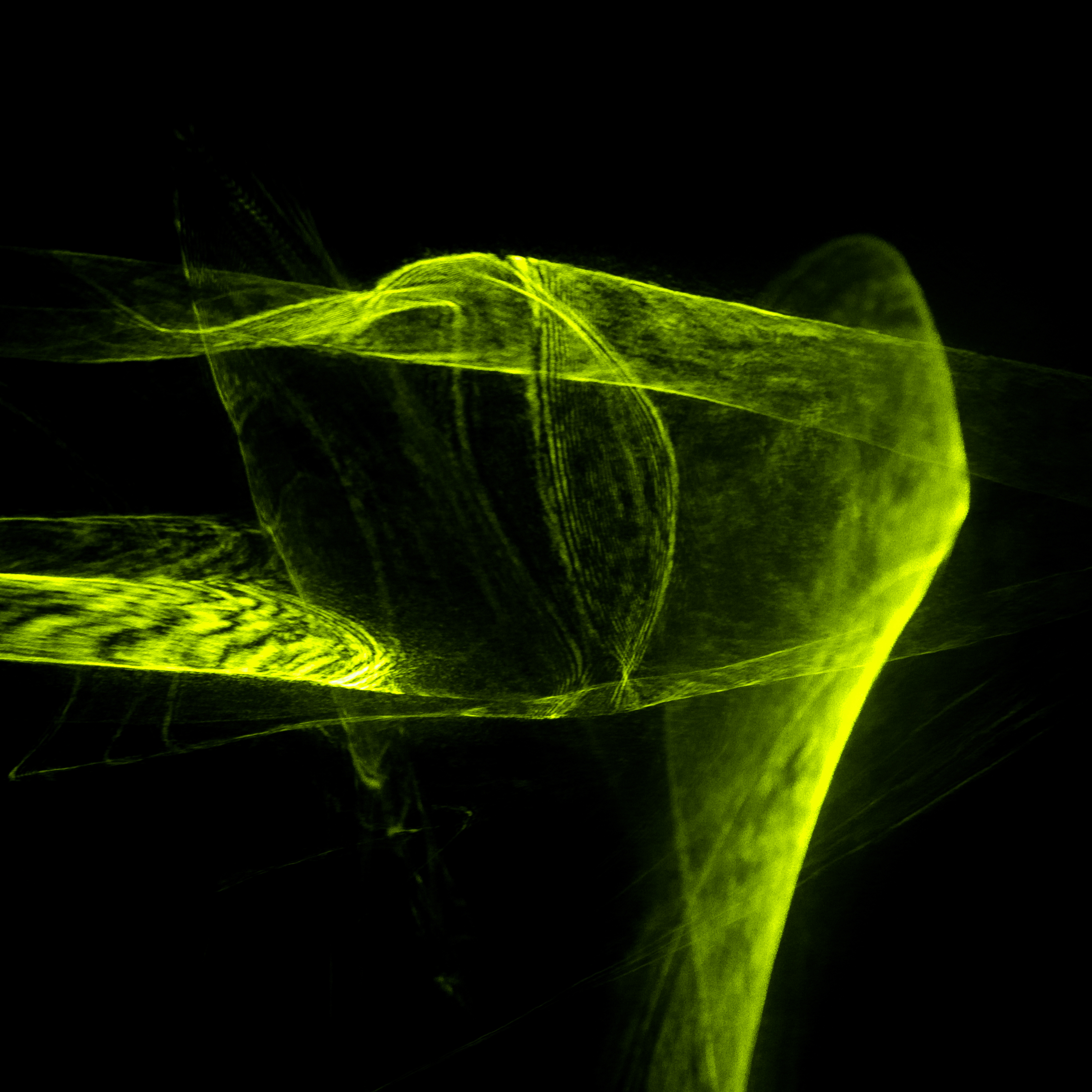 Laser beam fission series